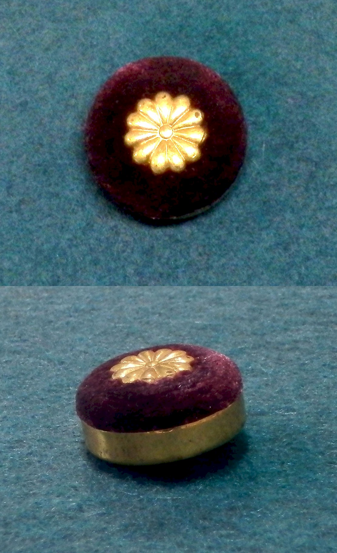 a badge of a member of the House of Representatives of Japan